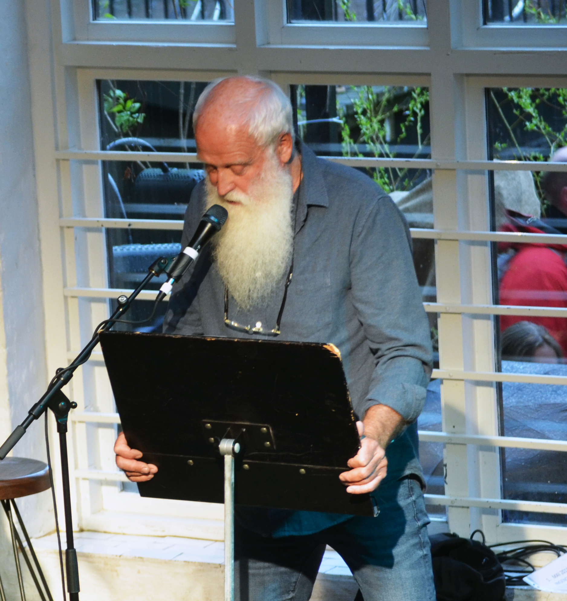 Norwegian politician and musician Alf Henriksen performing at Ingensteds 01.05.2018.